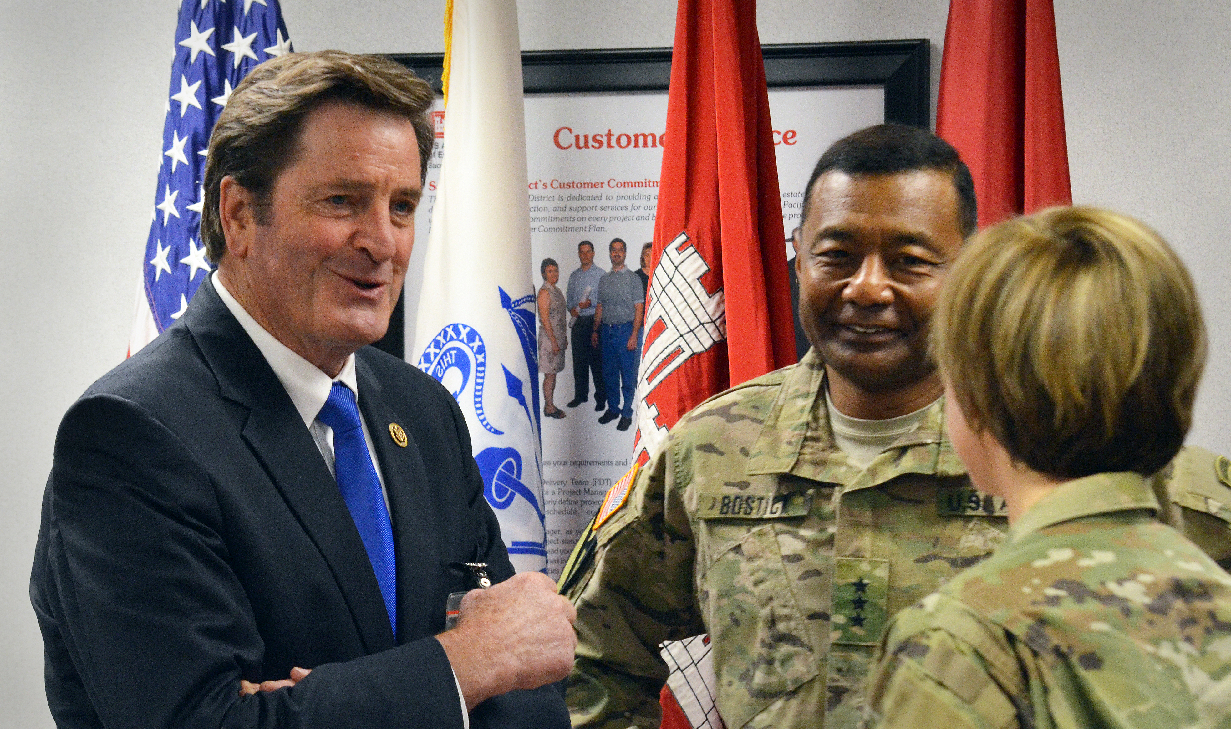 Rep. John Garamendi, 3rd District, California; and Lt. Gen. Thomas Bostick speak with Lt. Col. Julie Balten, commander of the 249th Prime Power Battalion, during the District Commanders Course, Oct. 19, 2015, in Sacramento. (U.S. Army photo by Robert Kidd / Released)